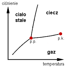 critical point,triple point